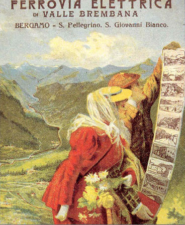 Ferrovia Valle Brembana leaflet